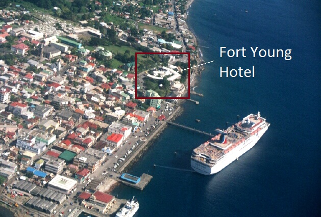 Fort Young Hotel, Roseau